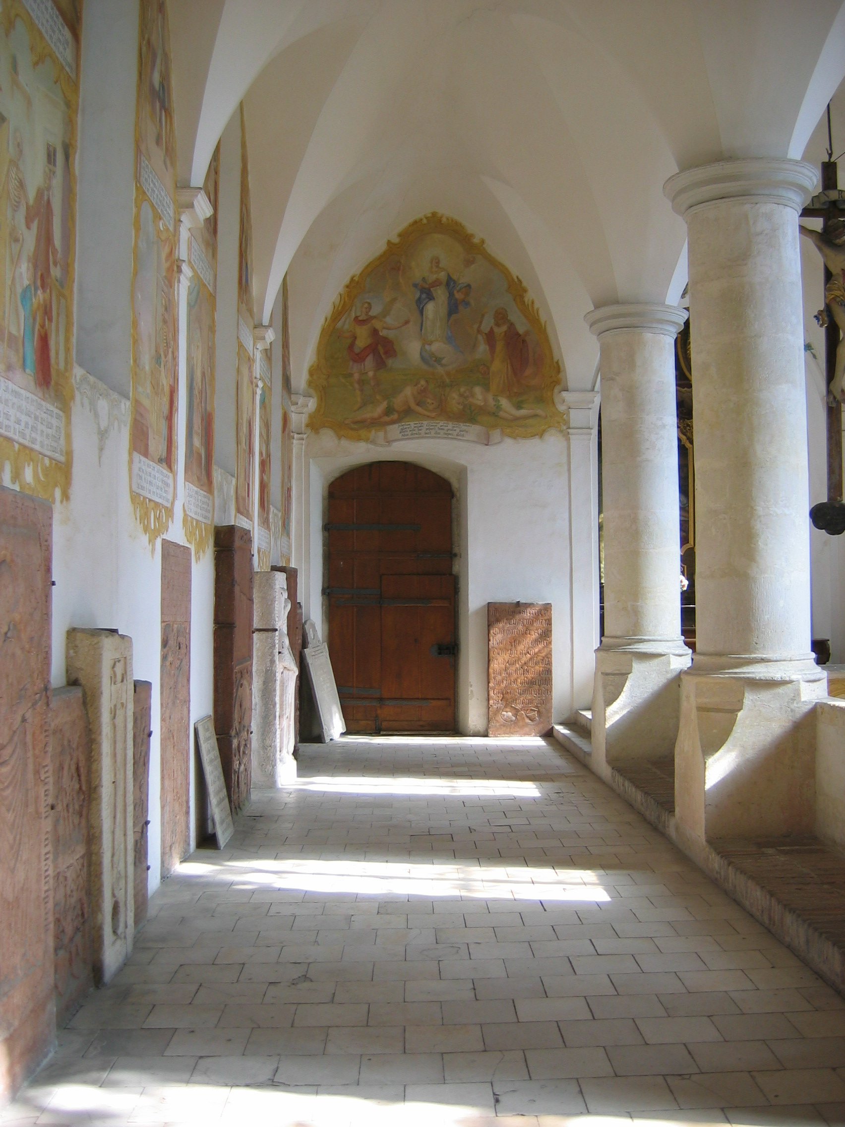 St. Peter, Straubing, Totentanzkapelle, north aisle facing east.